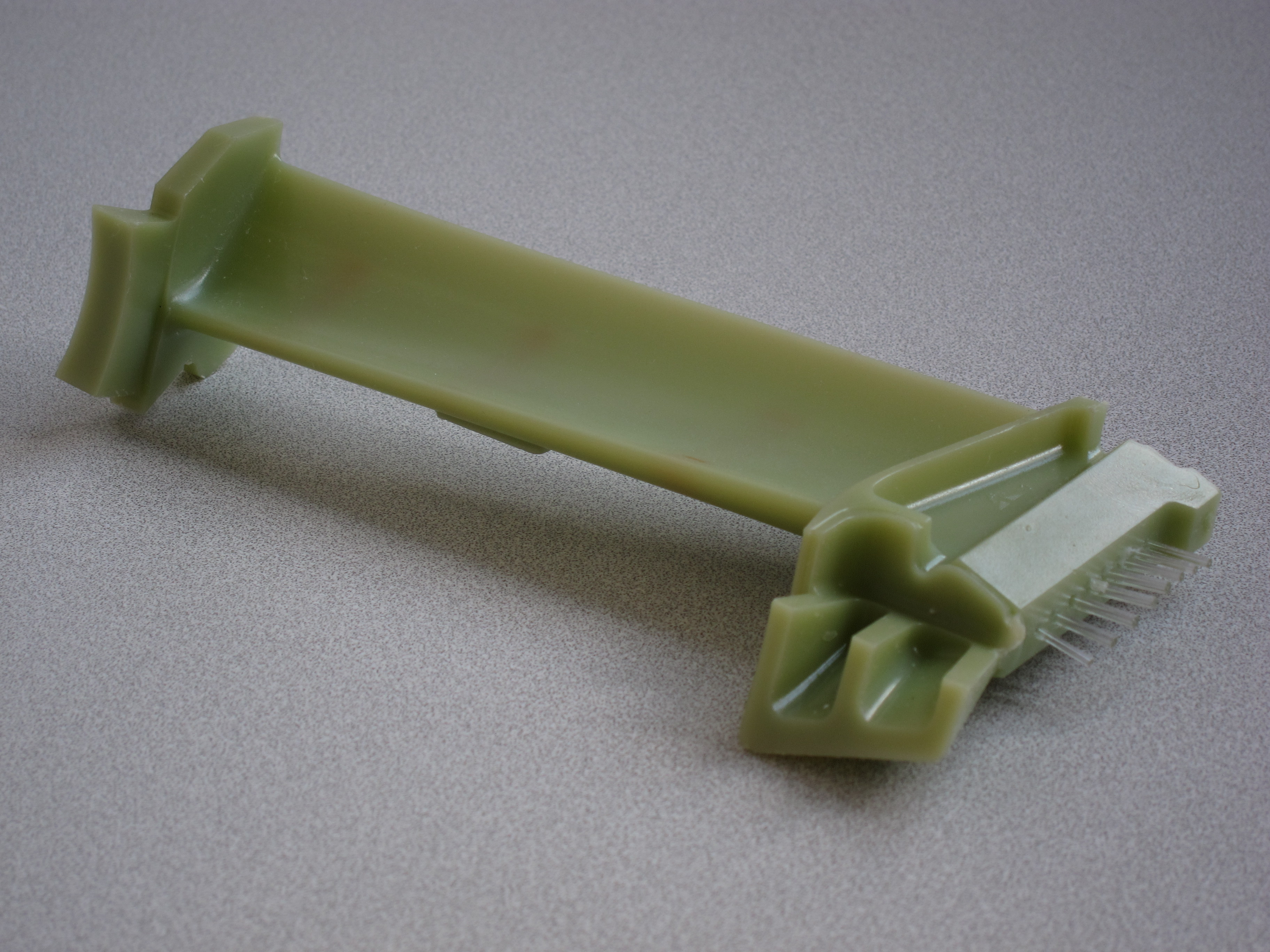 A wax pattern used for the fabrication of a jet engine turbine blade. Crystal tubes (cores) can be seen going through the pattern; these will not melt during the casting process. They provide internal passages which will be used for turbine blade cooling.